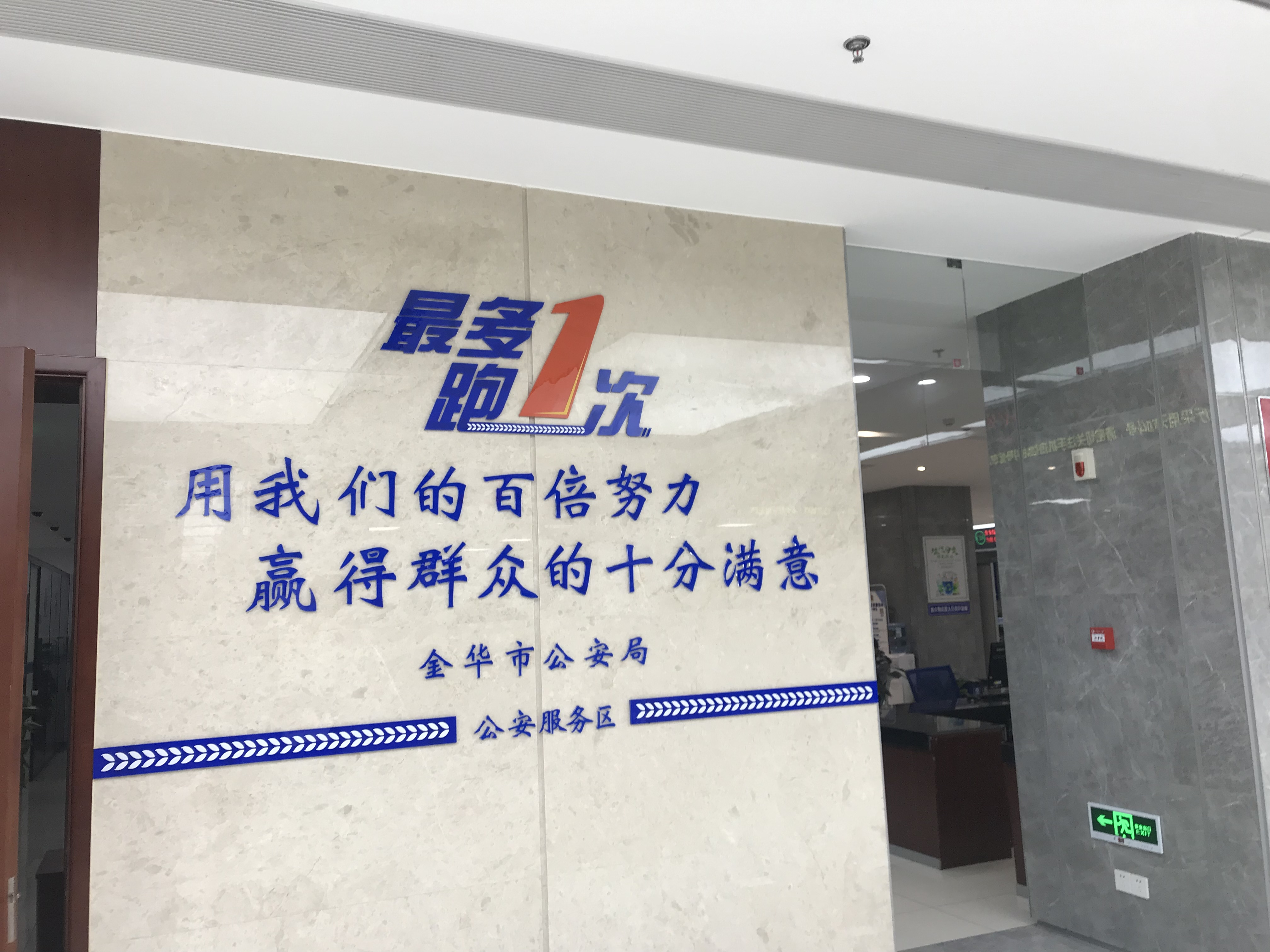 201901 “One-Time-Utmost” Slogan at Jinhua Citizen